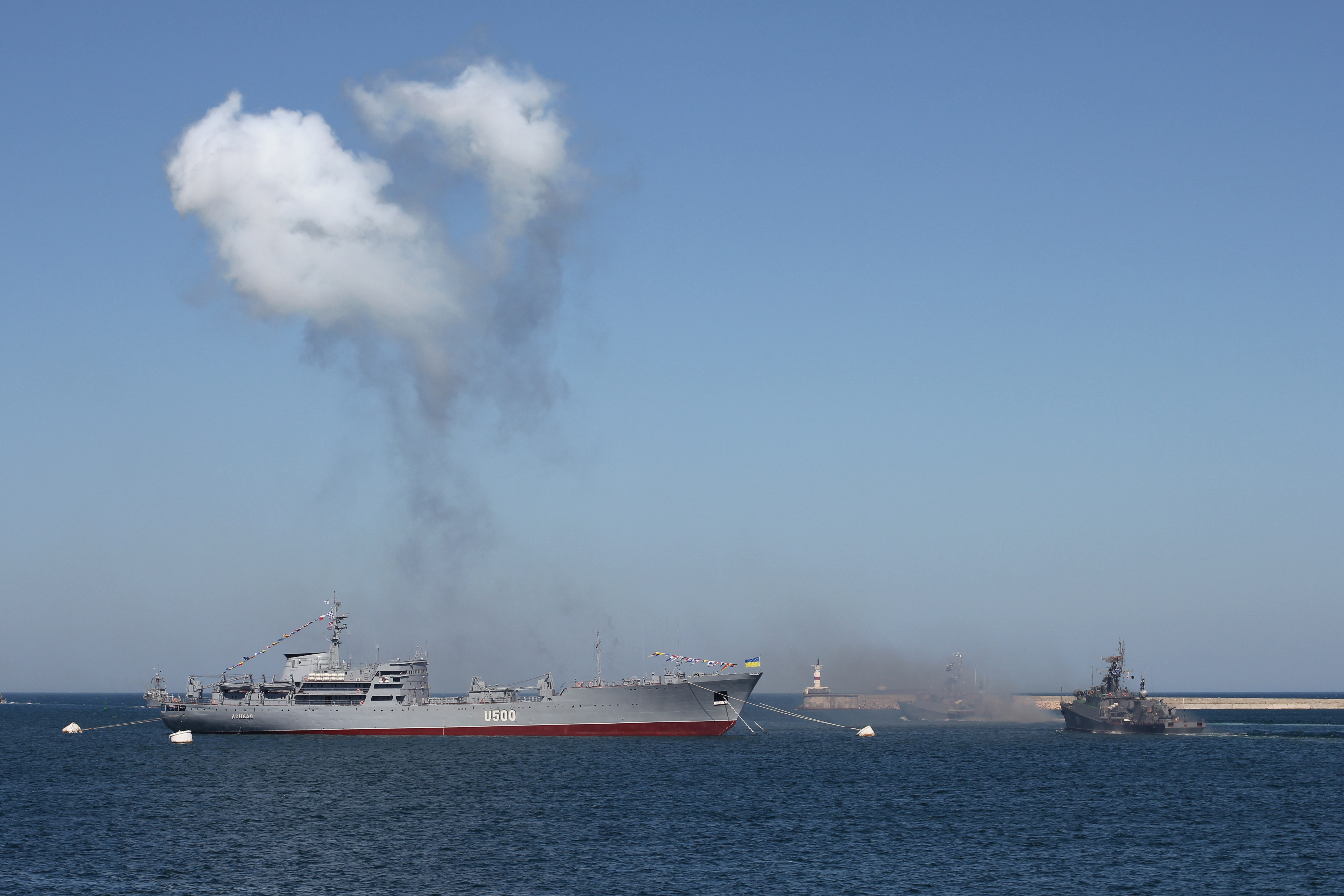 Joint celebration of The Navy Day in Russia and Ukraine. Sevastopol bay. Dress rehearsal. Salute.